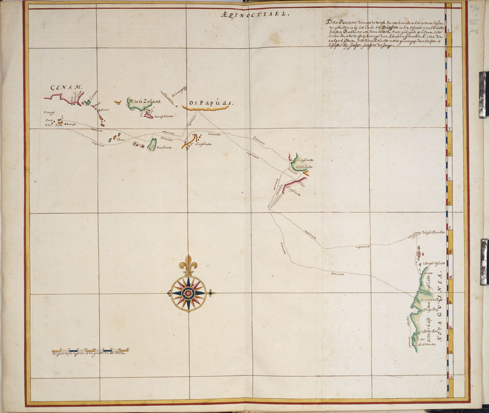 The map is digitised from a copy made about 1670 of an original map drawn on board the Duyfken during her voyage of discovery along the Australian coast in 1606 from the Atlas Van der Hem, one of the treasures of the Oesterreichische Nationalbibliothek in Vienna, Austria. The legend of the map states that 'This map shows the route taken by the pinnace Duifien on the outward as well as on the return voyage when she visited the countries east of Banda up to New Guinea'. Of most importance to Queenslanders is the fact that the map identifies the first landfall of the Duyfken on Australian soil as being at 11 degrees 45' S, the present day Pennefather River, where the map states 'R. met het Bosch'. Referenced by Gunter Schilder in his book: Australia unveiled : the share of the Dutch navigators in the discovery of Australia. Amsterdam : Theatrum Orbis Terrarum, 1976, pages 286-287.